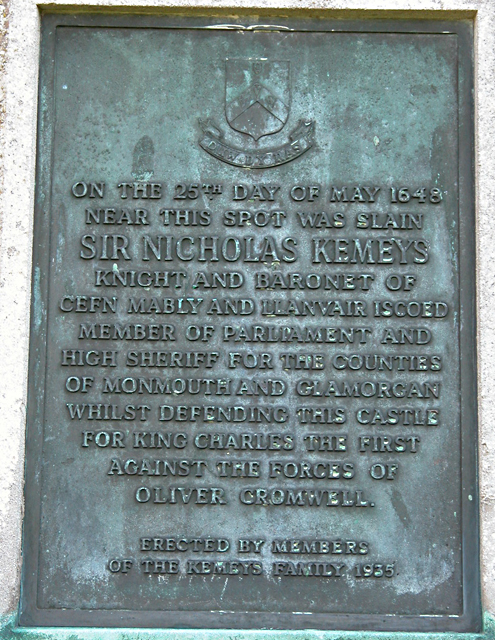 Chepstow Castle - Sir Nicholas Kemeys Memorial. On the wall of the Lower Bailey in Chepstow Castle. It was erected by members of the Kemeys family in 1935.